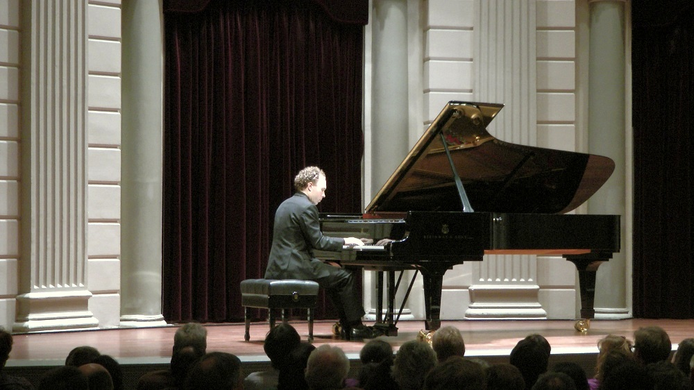 Dutch pianist Ralph van Raat, while performing "The Persian Hours" [Les Heures persanes] by the French composer Charles Koechlin at Amsterdam Concertgebouw (Kleine Zaal) -- Photo by Pejman Akbarzadeh / Persian Dutch Network